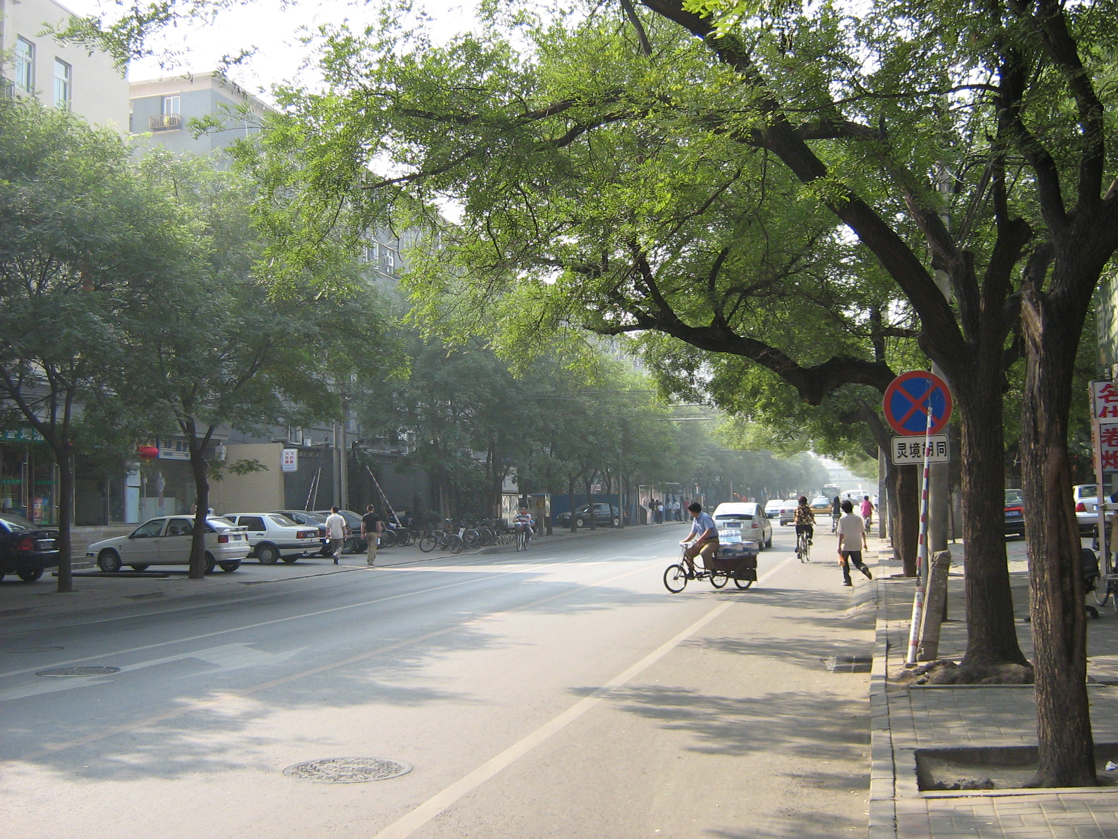 Lingjing Hutong (灵境胡同), West (from east towards west), Beijing, China